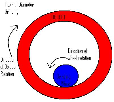 A basic diagram of Internal Diameter Cylindrical grinding